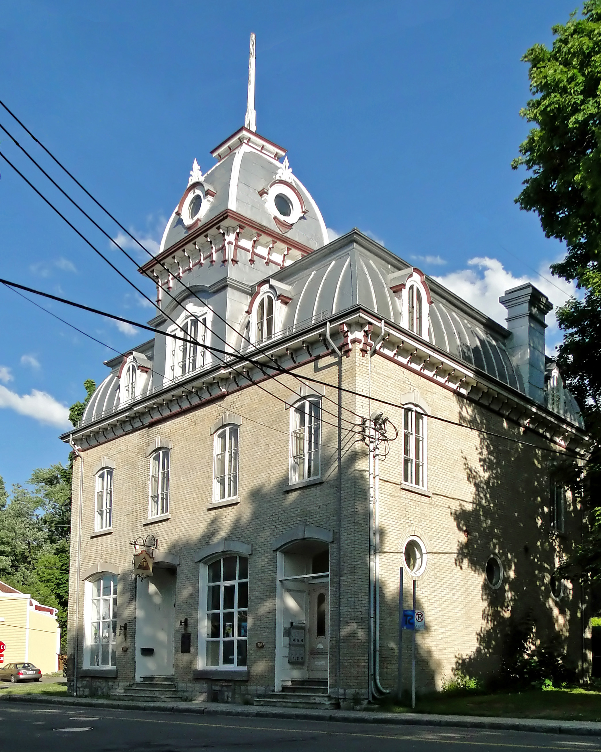 Ancient town hall of Lauzon, Lévis, province of Quebec, Canada